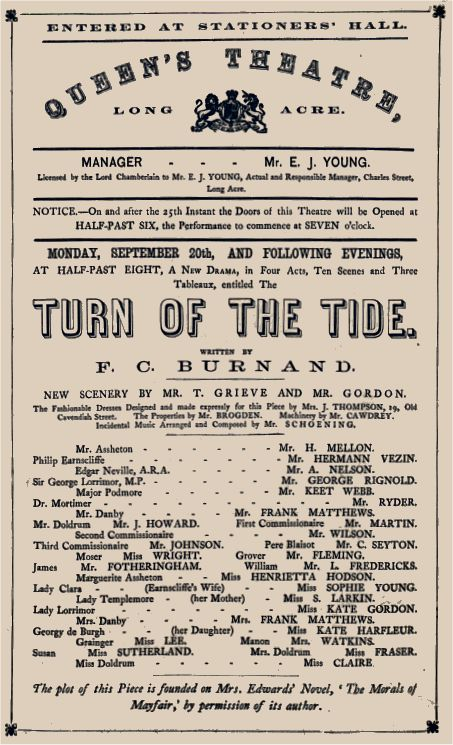 Scan of programme for the Queen's Theatre, Long Acre, London, 20 September 1869